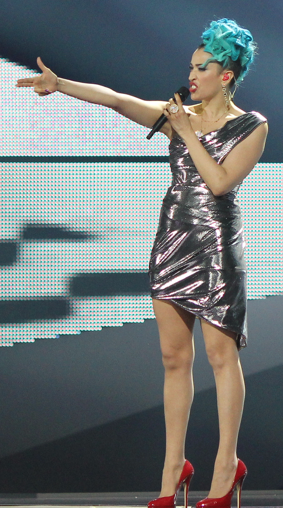 Italy's Nina Zilli performs during the dress rehearsal of the Grand Final of the Eurovision 2012 song contest in the Azerbaijan's capital Baku on May 25, 2012.